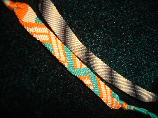 Bracelets. Friendship bracelets. Same type of knot, two directions.